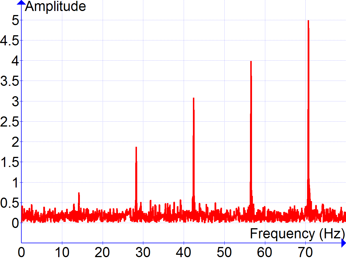 Fourier transform of Cosine Series Plus Noise. Fourier transform performed with